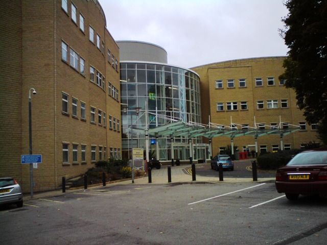 The Calderdale Royal Hospital Main entrance to the hospital.